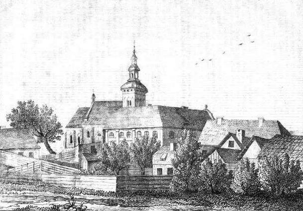 Gniezno. View St. John's church, monastery of Holy Sepulchre Friars and dwelling premisses in Grzybowo from the north-western side